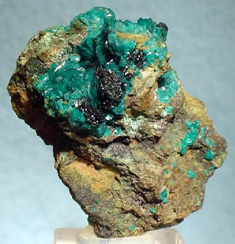 Liroconite, Clinoclase Locality: Wheal Gorland, St Day United Mines (Poldice Mines), Gwennap area, Camborne - Redruth - St Day District, Cornwall, England, UK (Locality at ) Size: 3.4 x 3.0 x 2.0 cm. A superb, CLASSIC and old-time toenail of two, well-placed vugs on gossan matrix richly lined with lustrous, blue-green liroconite blades and sparkly, dark blue clinoclase microcrystals. Liroconite, in combination with clinoclase, are Holy Grail species for Cornwall or English collectors, among the rarest ever found in beautiful crystals, and this is a good one that is a display specimen AS WELL AS a reference piece. Mined in the 1820s-1850s from this type locality.